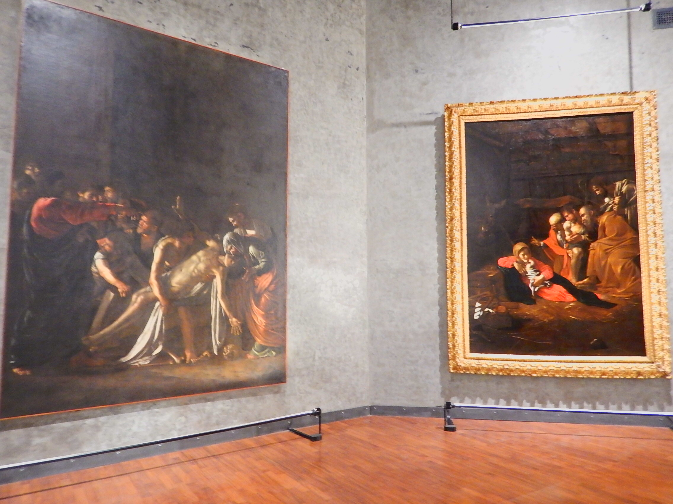 Michelangelo Merisi of Caravaggio, the resurrection of Lazourus and the Adoration, Regional Museum of Messina